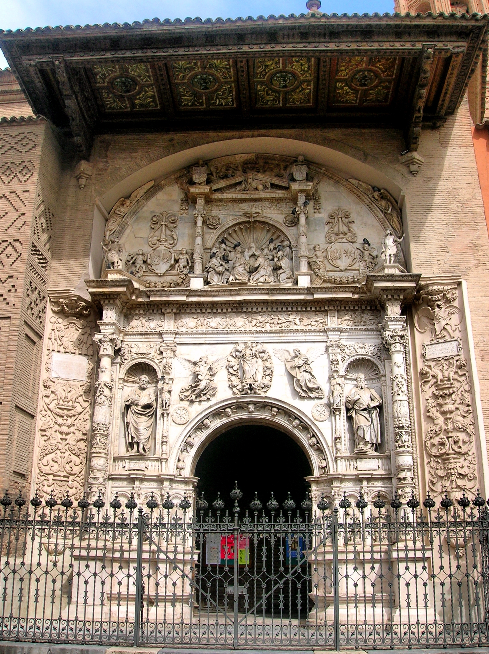 Colegiata de Santa María la Mayor, Calatayud (Zaragoza, Aragón, España)